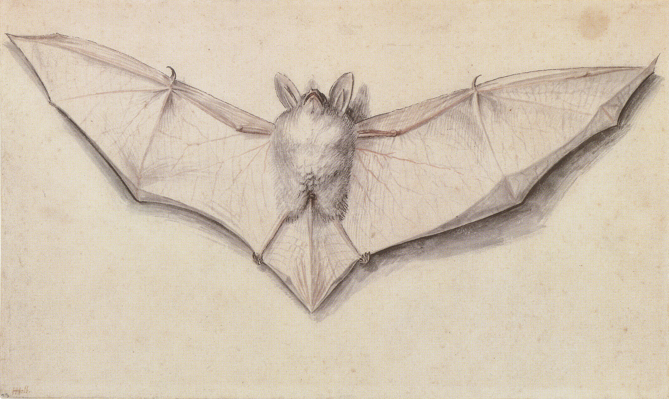 Study of a bat with outspread wings. Brush (grey and brown), pen and ink (black), wash, and red-brown watercolour, 16.8 × 28.1 cm, Kunstmuseum Basel.